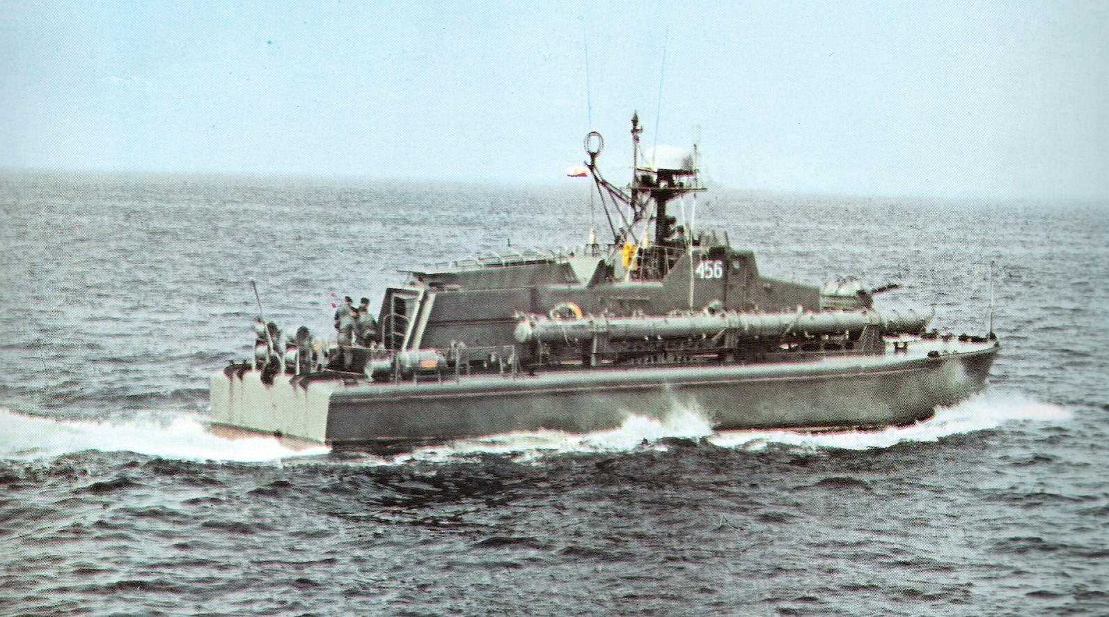 Polish torpedo boat Project 664 ('Wisla') class ORP Sprawny (KTD-456)